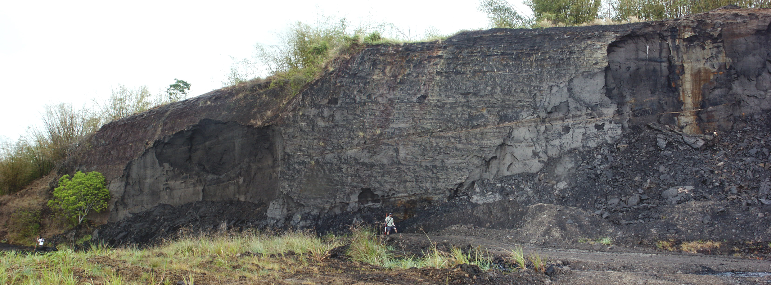 Oil sands of the lower L'Enfer Formation (Pliocene) exposed at the Stollmeyer Quarry, near Parrylands, Trinidad and Tobago. Coordinates are approximate.